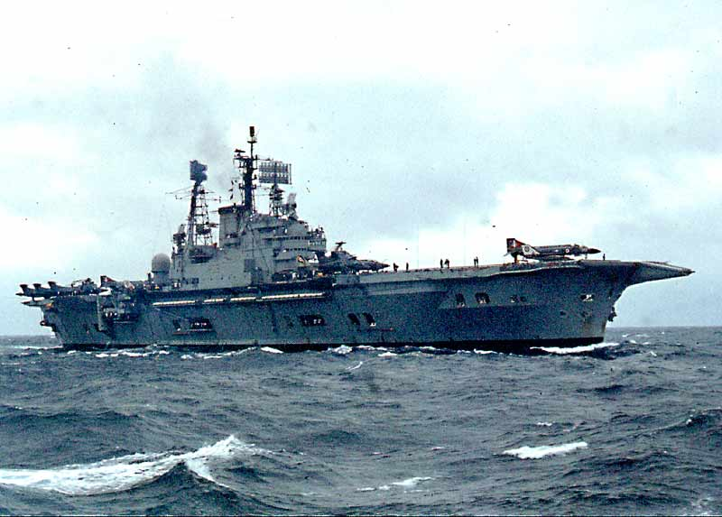 HMS Ark Royal